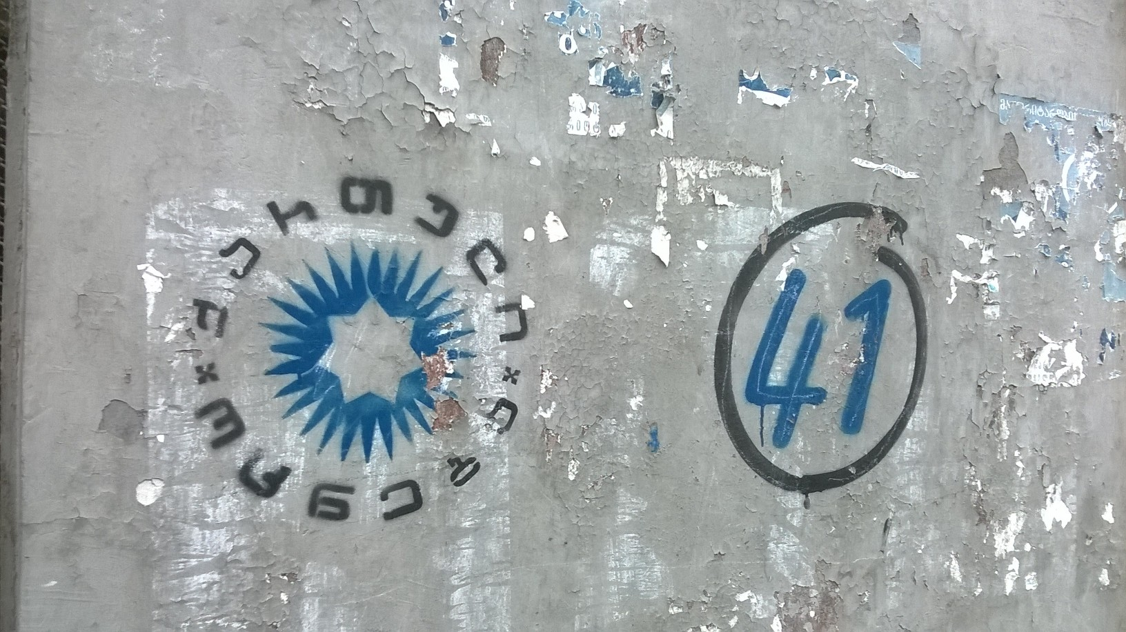 Georgian Dream, electoral graffiti, August 2016, Old Tbilisi